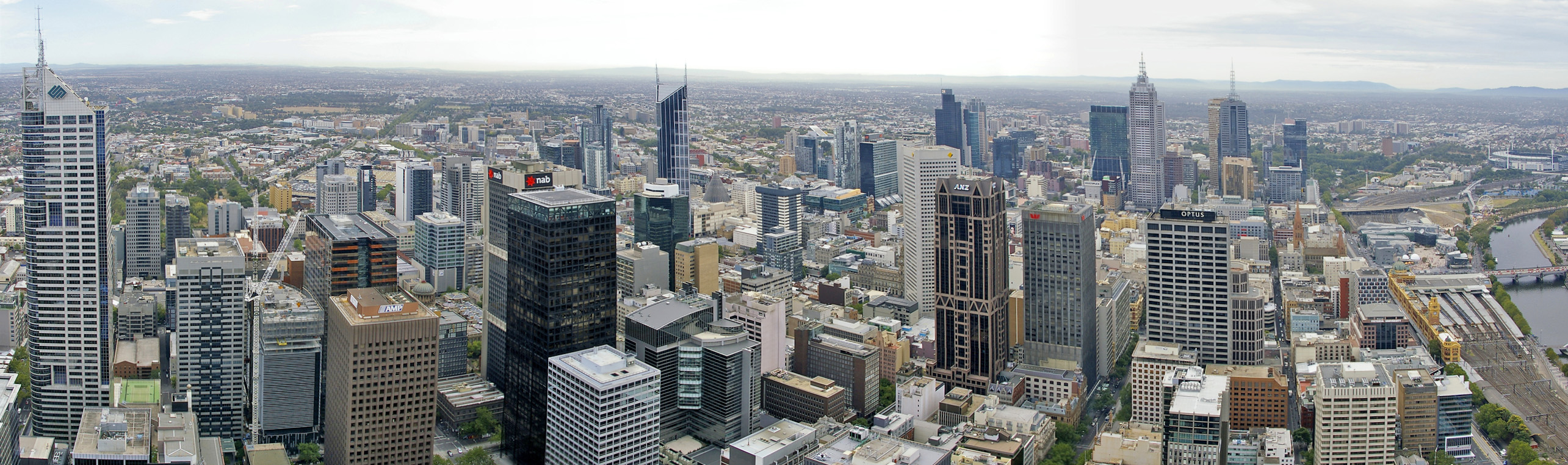 Melbourne Panorama.